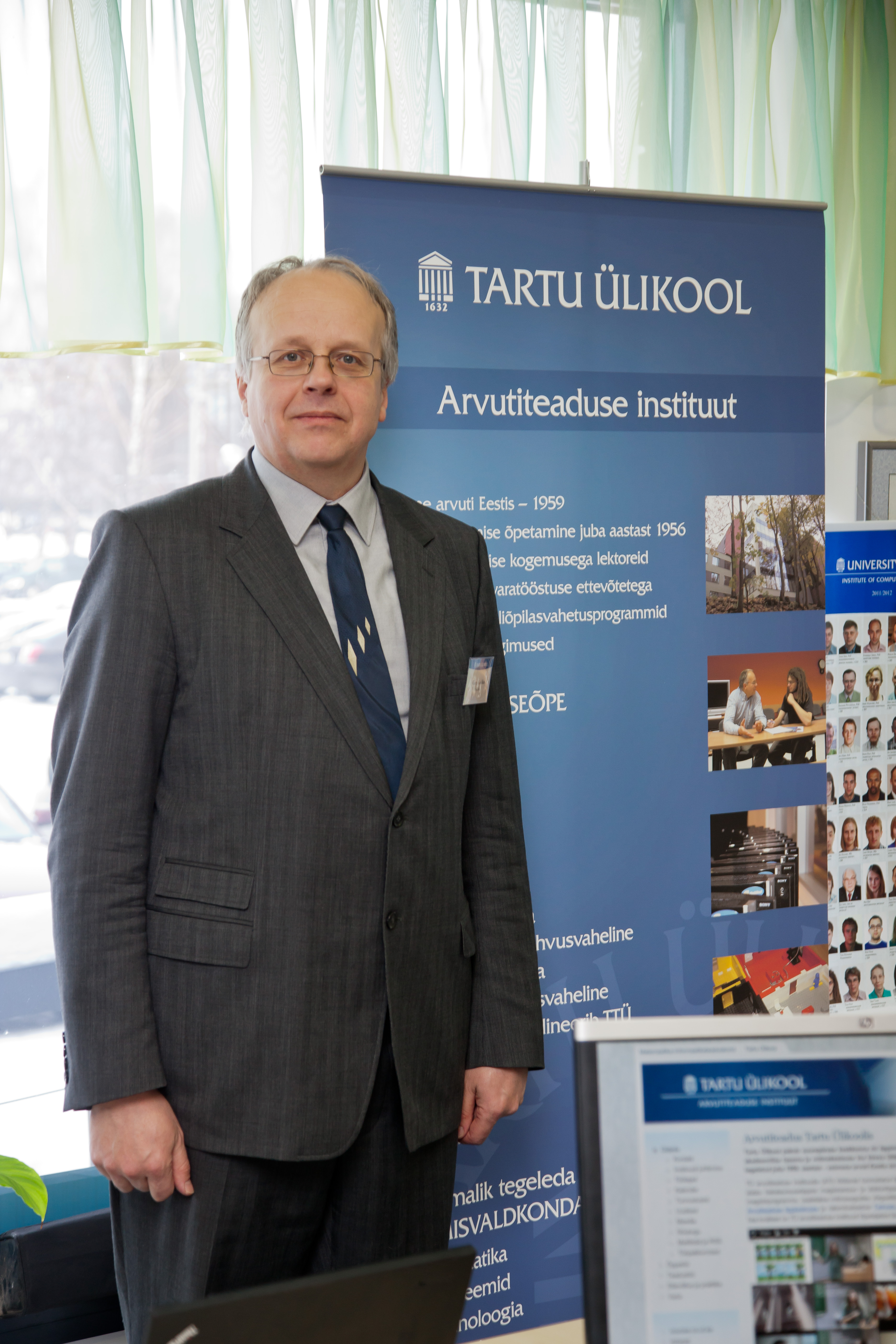 27. jaanuaril 2012 toimus Tartu Ülikooli Tehnoloogiainstituudis ettevõtjaile ja arendajaile avatud uste päev. Pildil TÜ arvutiteaduste instituudi hajussüsteemide professor Eero Vainikko.